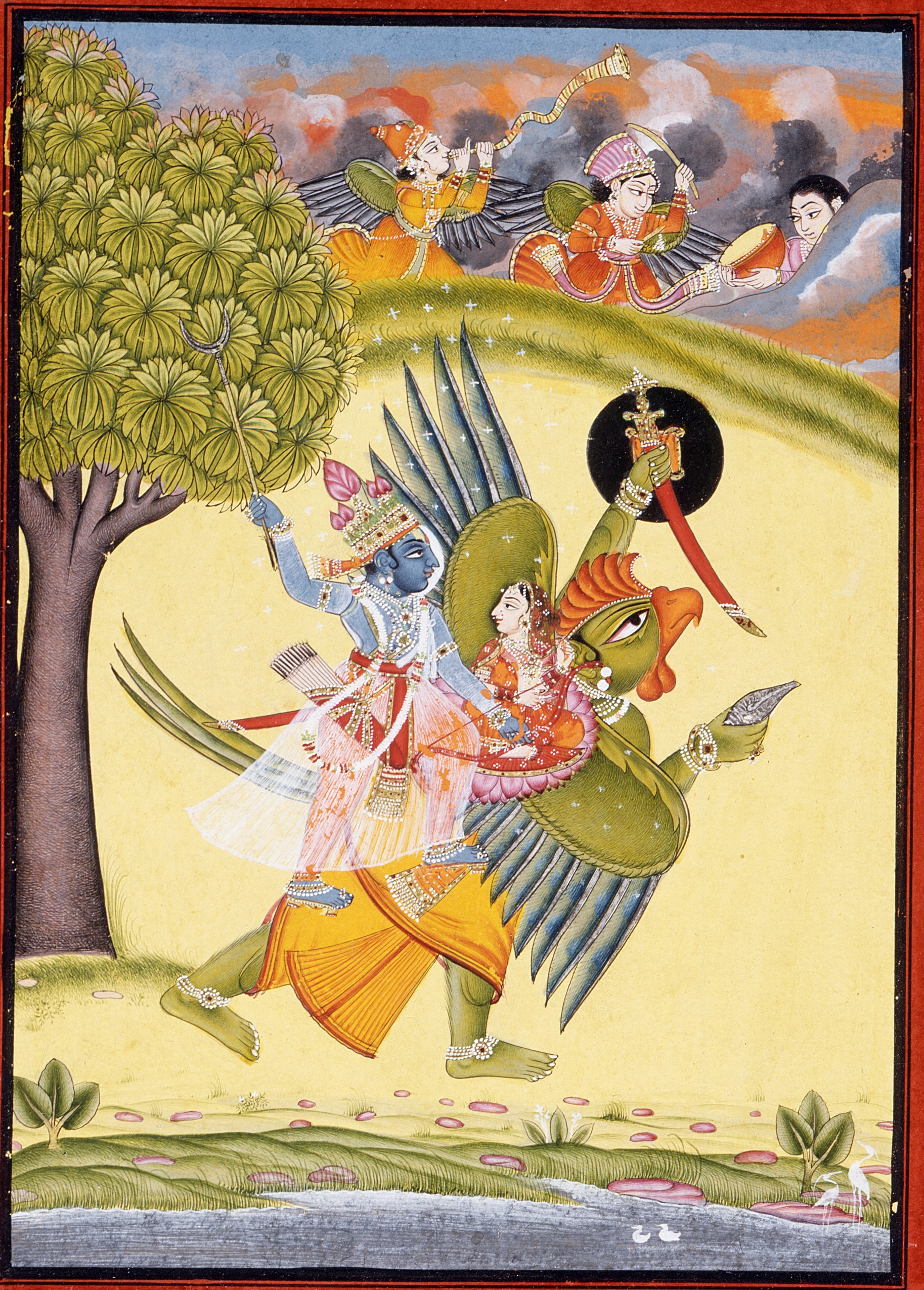 Narayana (Vishnu) riding on Garuda with Shri Lakshmi Painting; Watercolor, Opaque watercolor, gold, and silver on paper Sheet 10 3/8 x 8 in. (26.35 x 20.32 cm); Image: 8 3/8 x 5 7/8 in. (21.27 x 14.92 cm)